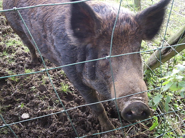 "Iron-age " pig. Experiments with prehistoric farming techniques at Castell Henllys include keeping pigs and other animals in the forms closest to those that would have existed in the Iron age.